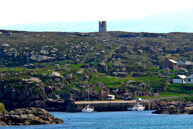 Kincasslagh Peninsula - Pier & tower at NW end The Kincasslagh Peninsula main road extends onto the peninsula from the village area to a fishing factory and pier at the NW end of the road. A tower is shown at the top of a hill. It would probably take a great deal of effort to get up there.